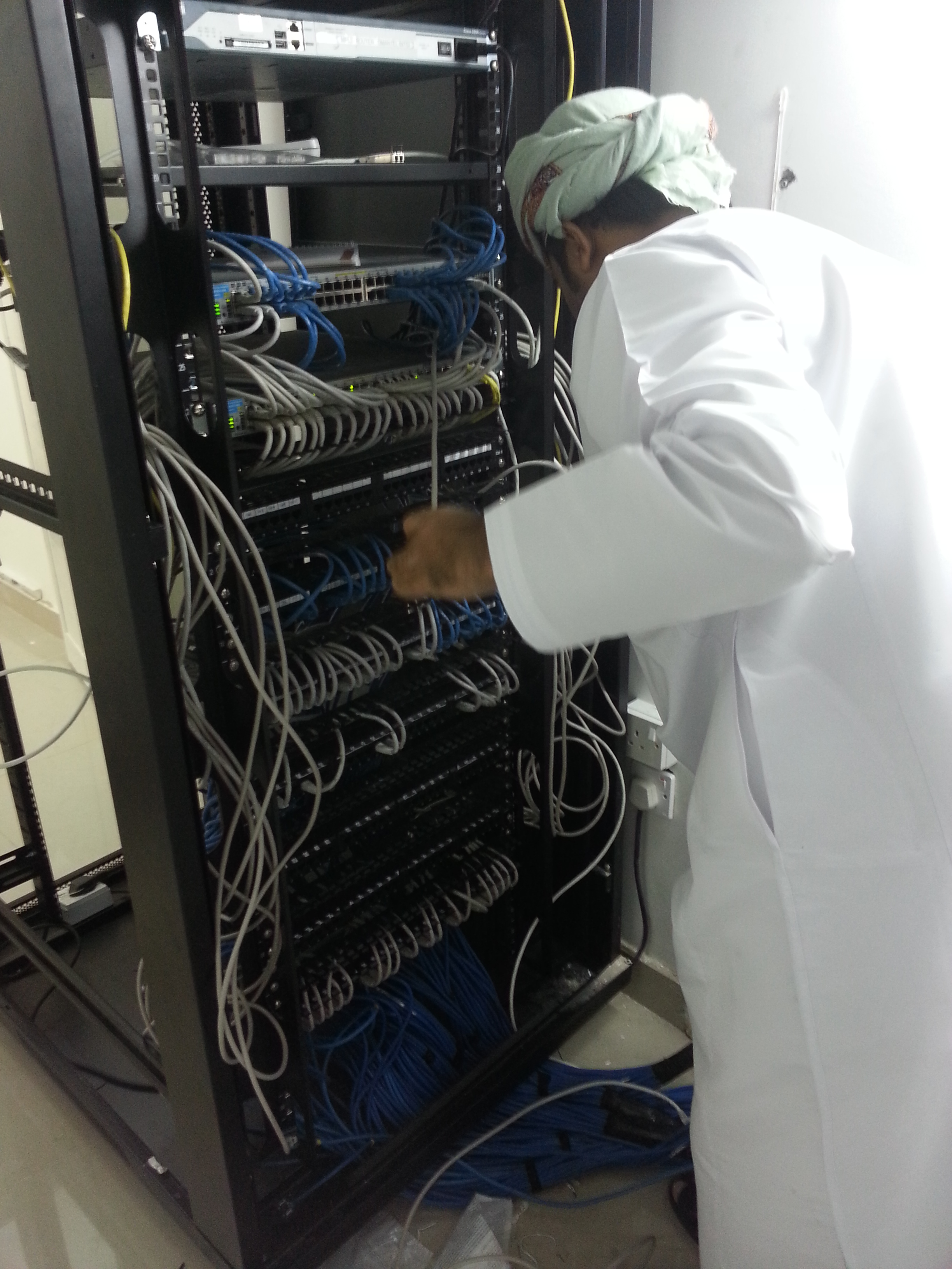 في المبنى